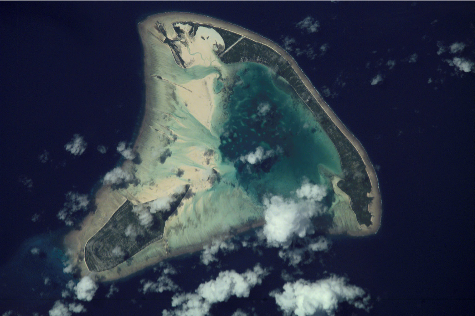 NASA astronaut image of Aranuka Atoll, Gilbert Islands, Kiribati ISS Crew Earth Observations: ISS002-E-6424 Identification Mission ISS002 (Expedition 2) Roll E Frame 6424 Country or Geographic Name Kiribati Features ARANUKA ATOLL Center Point Latitude 0.0° N Center Point Longitude 173.5° E Camera Camera Tilt 39° Camera Focal Length 800 mm Camera Kodak DCS460 Electronic Still Camera Film 3060 x 2036 pixel CCD, RGBG array. Quality Percentage of Cloud Cover 0-10% Nadir What is Nadir? Date 2001-05-23 Time 22:15:20 Nadir Point Latitude -0.7° N Nadir Point Longitude 176.2° E Nadir to Photo Center Direction West Sun Azimuth 51° Spacecraft Altitude 210 nautical miles (390 km) Sun Elevation Angle 54° Orbit Number 2330